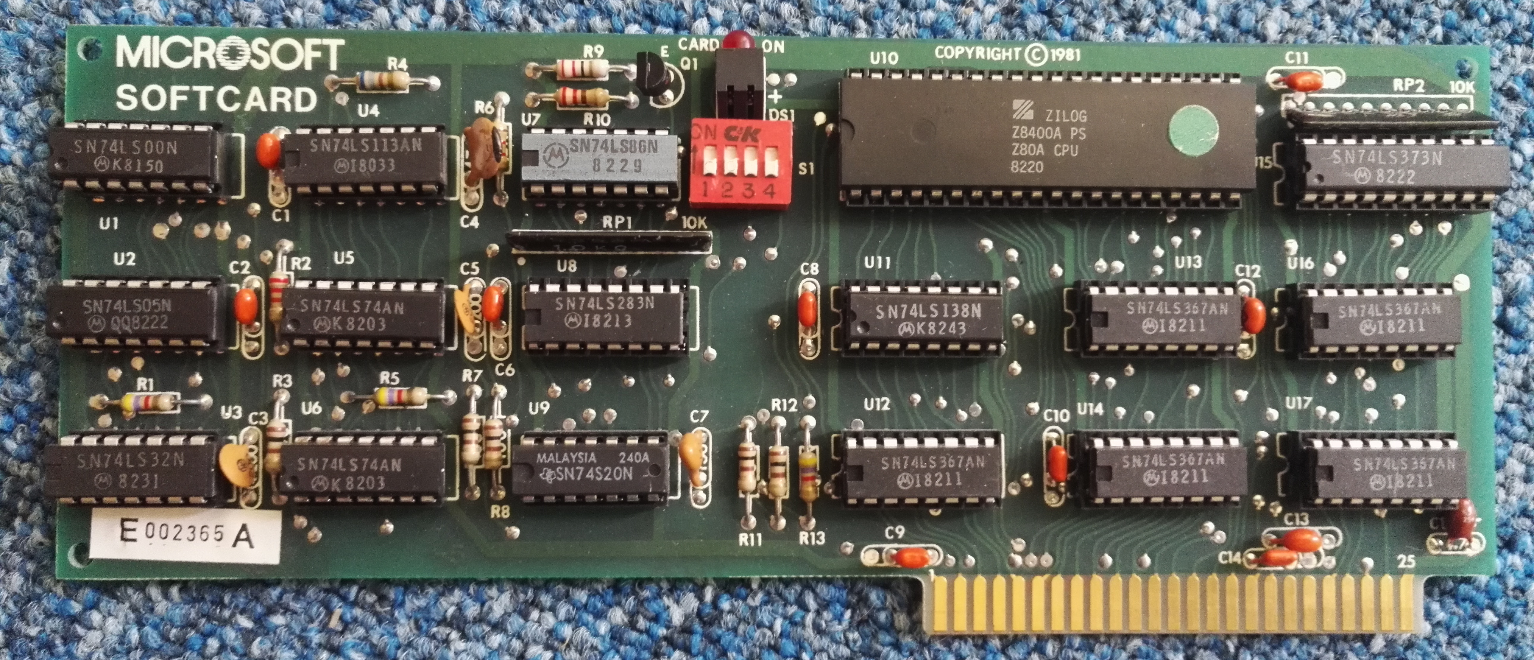 This is a popular (at the time) coprocessort card providing Z80 support for an apple II made by Microsoft